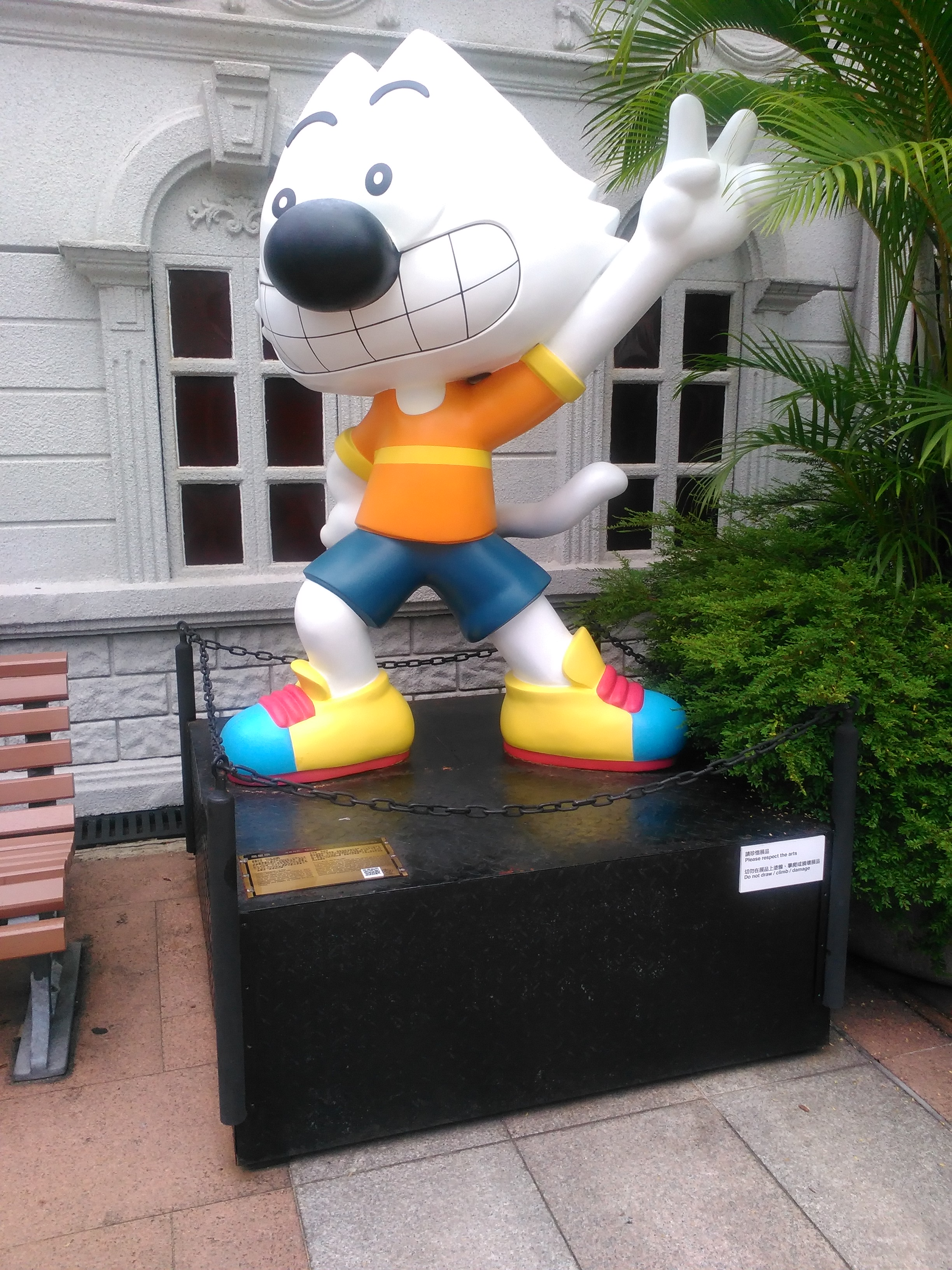 Statue of Q-Boy, from White Cat Black Cat - Hong Kong Avenue of Comic Stars